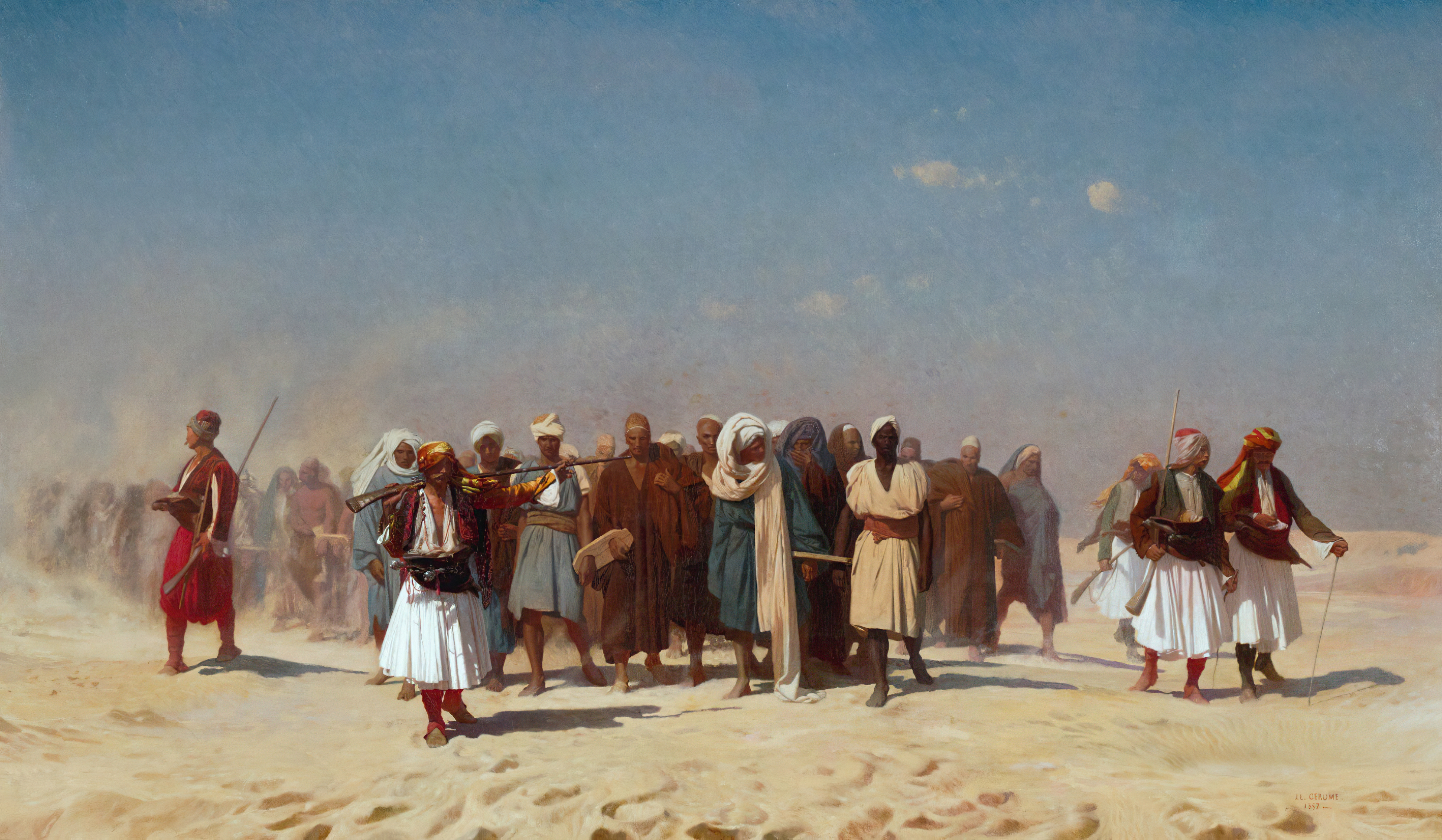 Egyptian Recruits Crossing the Desert by Jean-Léon Gérôme, 1857, oil on canvas, 62 by 106cm., 24¼ by 41¾in.